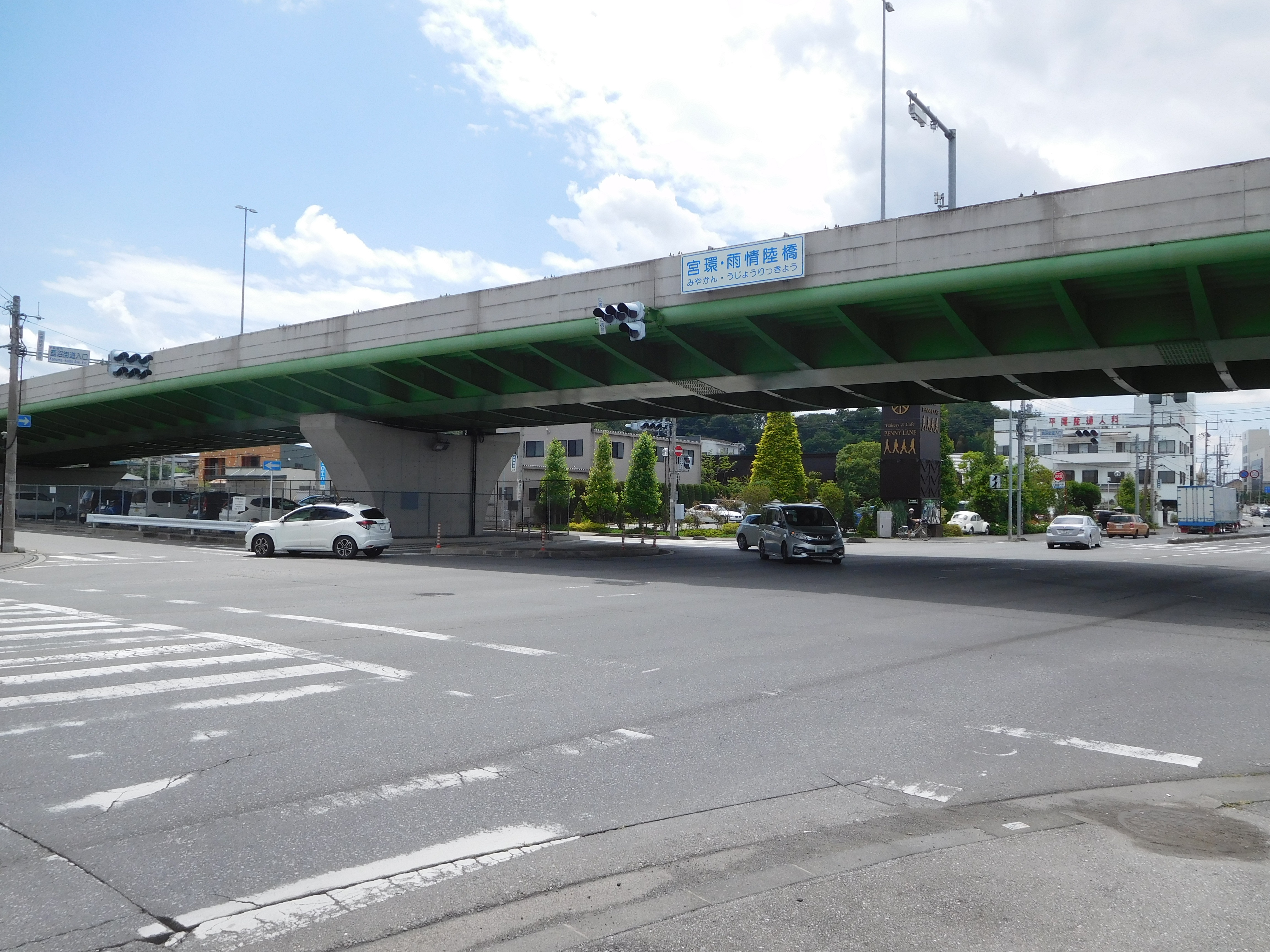 This is a brige "MIYAKAN Ujo Overpass" in Utsunomiya, Tochigi, Japan.